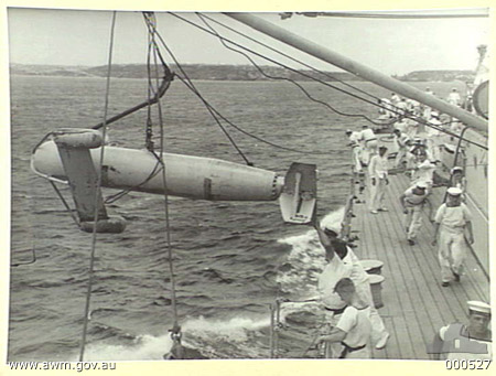 AWM Caption : "Australia: New South Wales, Sydney. HMAS SYDNEY. PARAVANE BEING LOWERED INTO SEA.